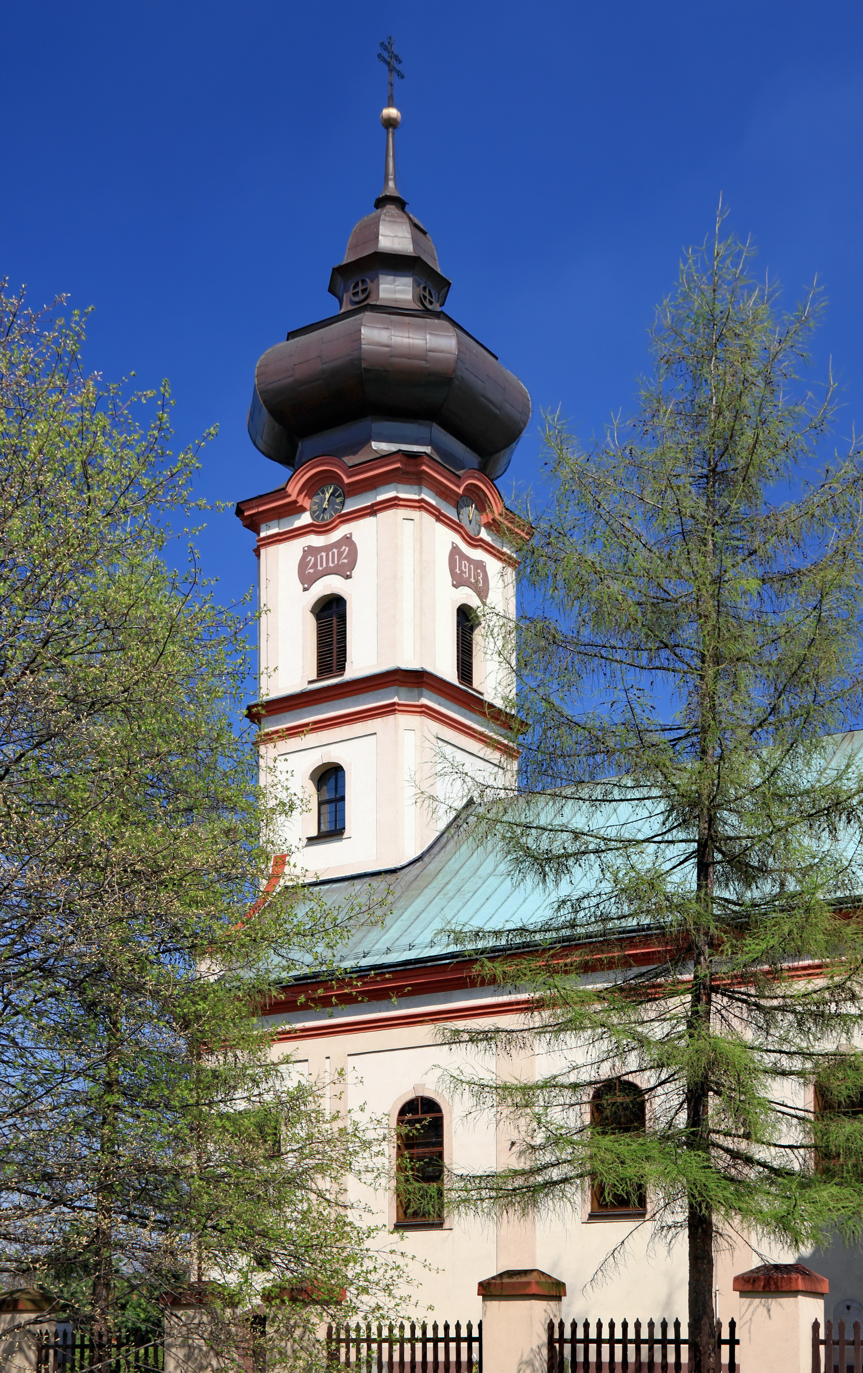 Dębieńsko Wielkie, Saint George church, build in 1800-1802, 1913